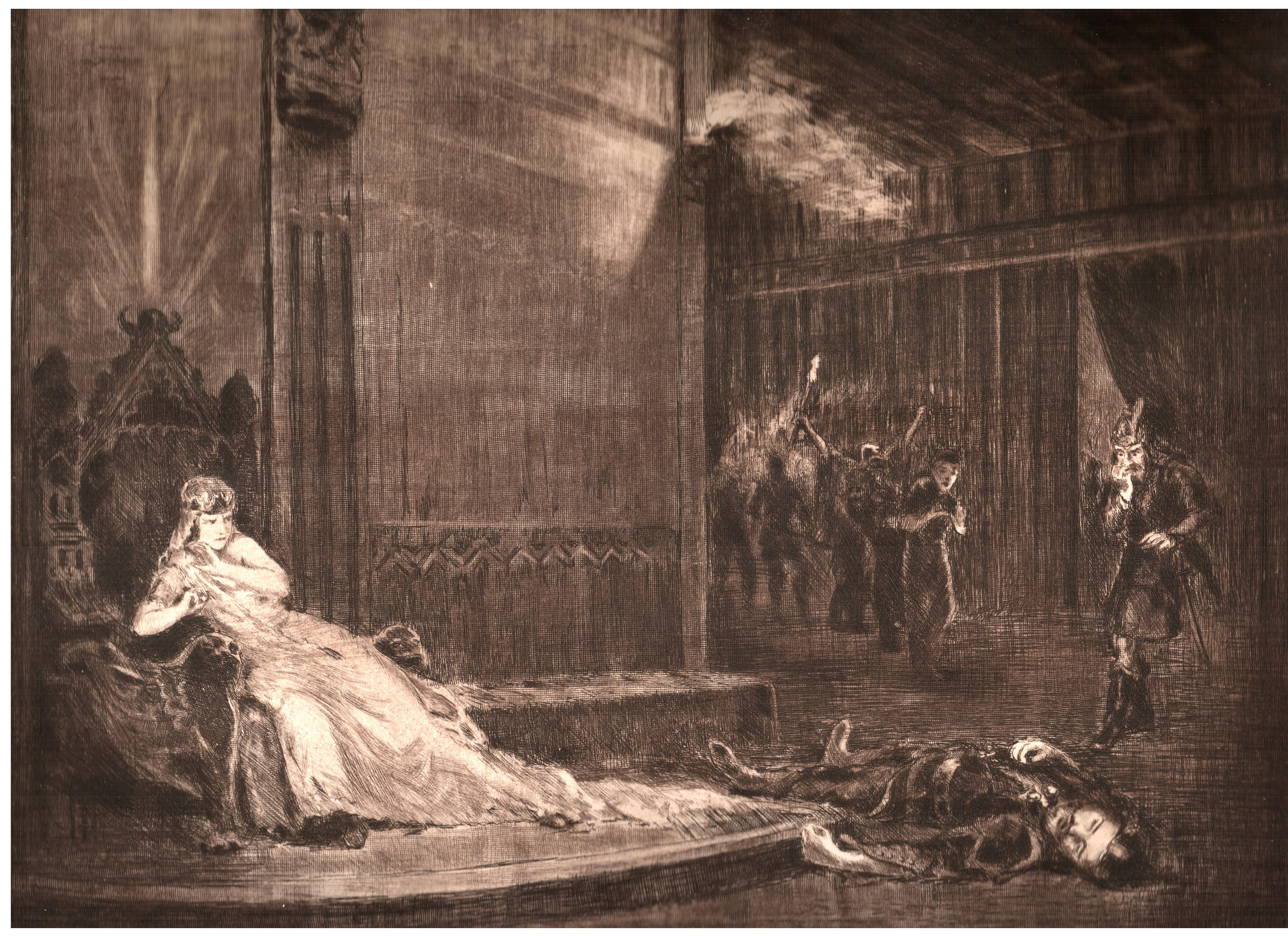 Atilla (434 – 453) Great king Atilla, emperor of the Hun Empire (called imperator by western and eastern romans) was murdered in 453, after his wedding ceremony. The drawing of Edvi Illés Ödön.